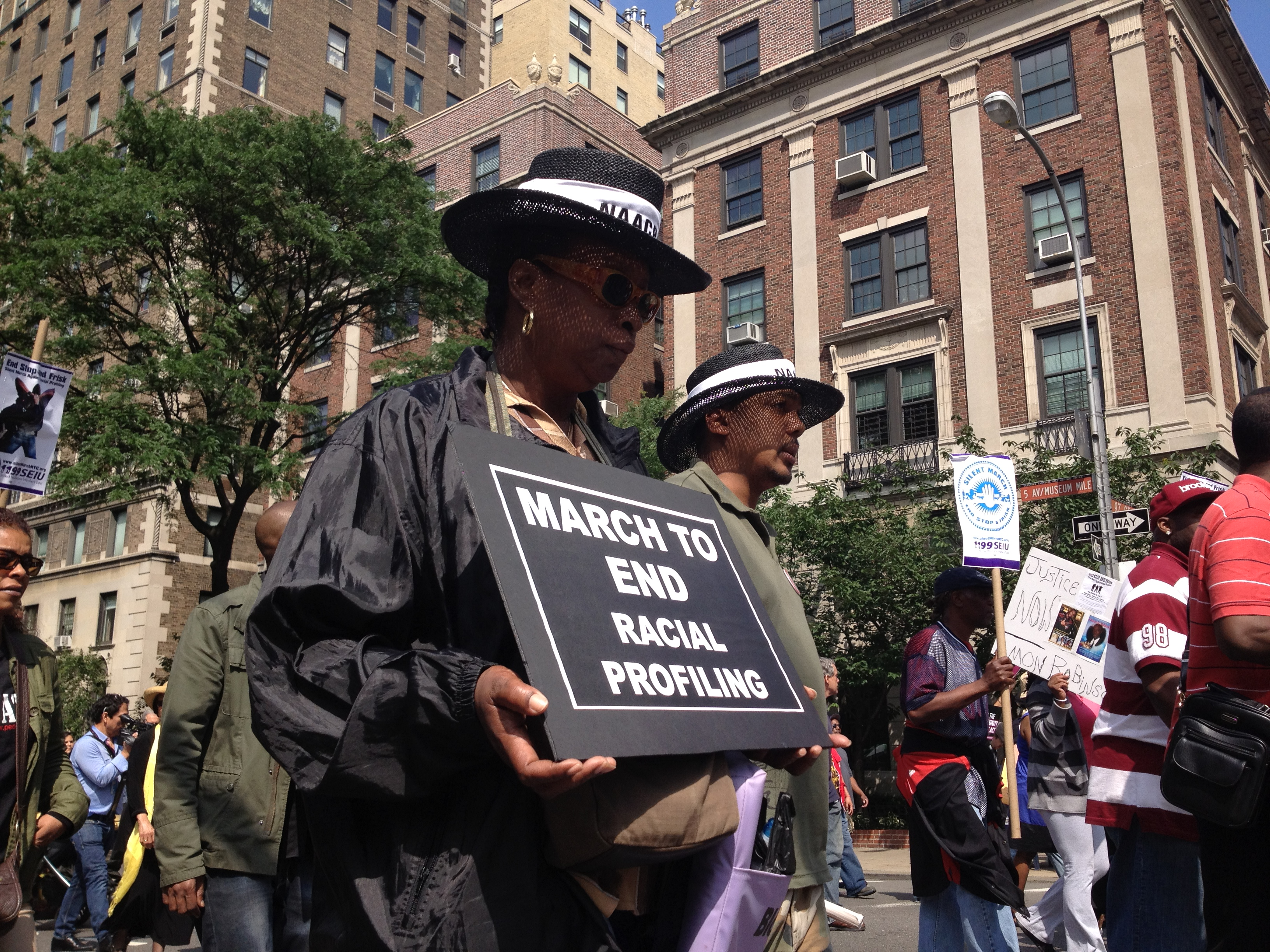 Demonstrators at a march against racially disproportionate policing in New York City.